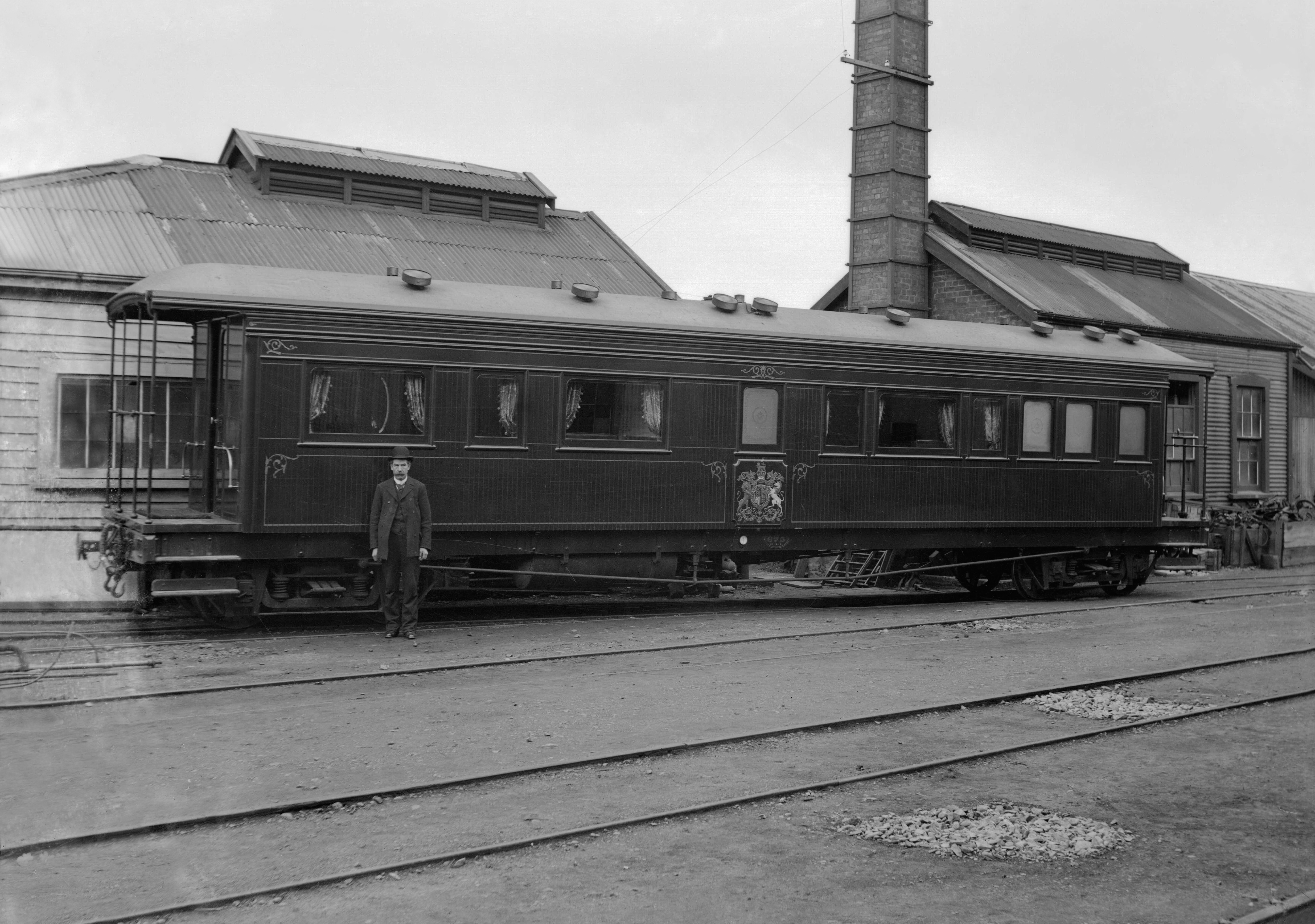 A P Godber, the photographer, standing in front of the royal train carriage which was used during the Duke of Cornwall & York's 1901 visit. Photographed outside the Petone Railway Workshops by Godber.